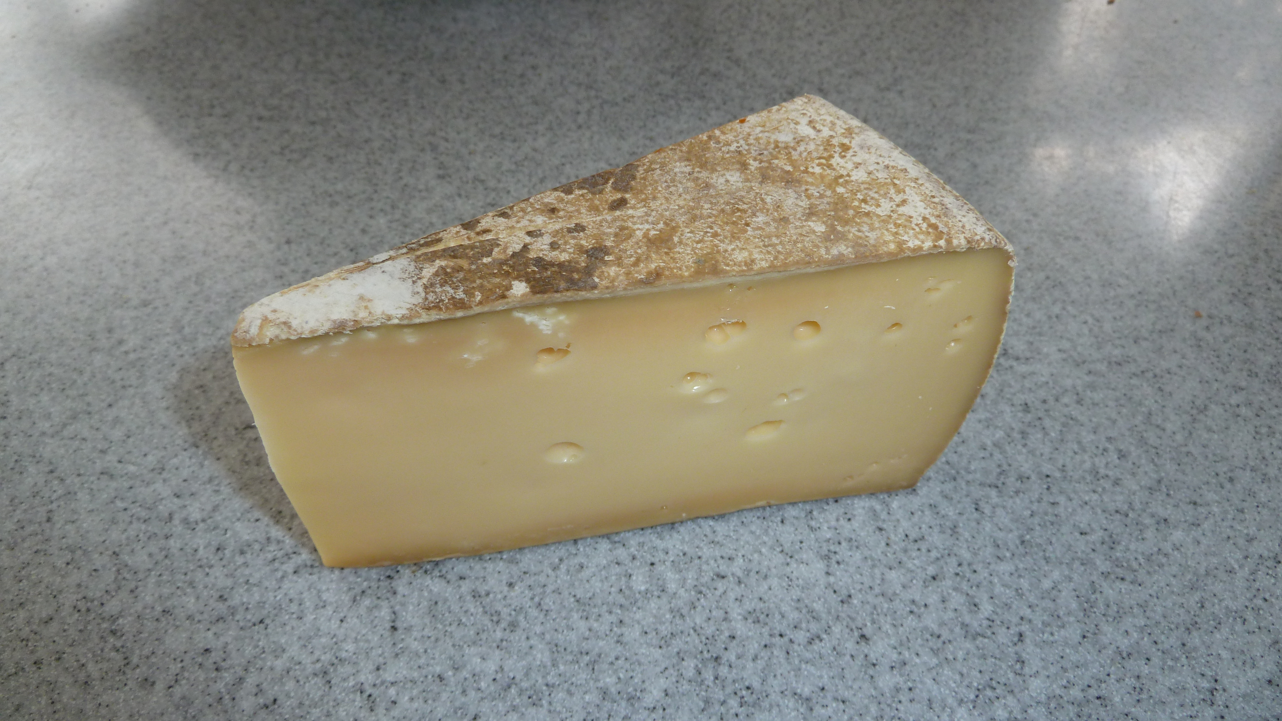 Swiss cheese named Grottino